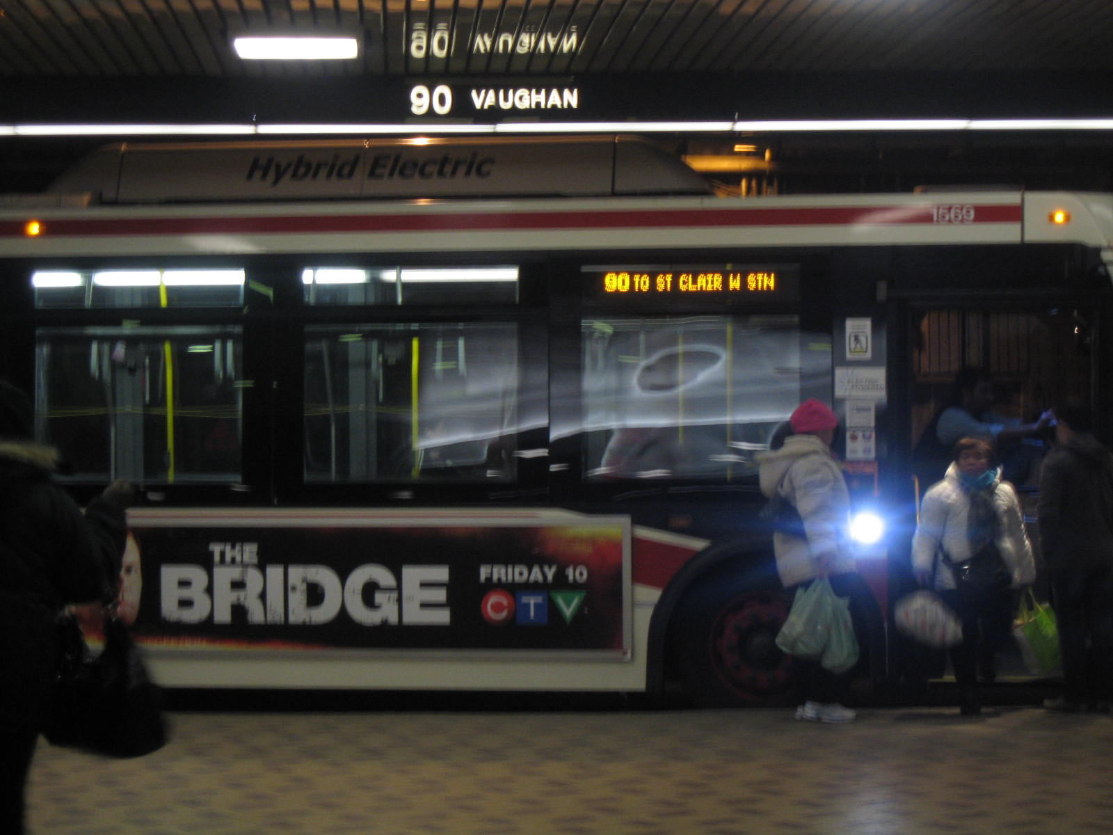 St. Clair West station bus platform